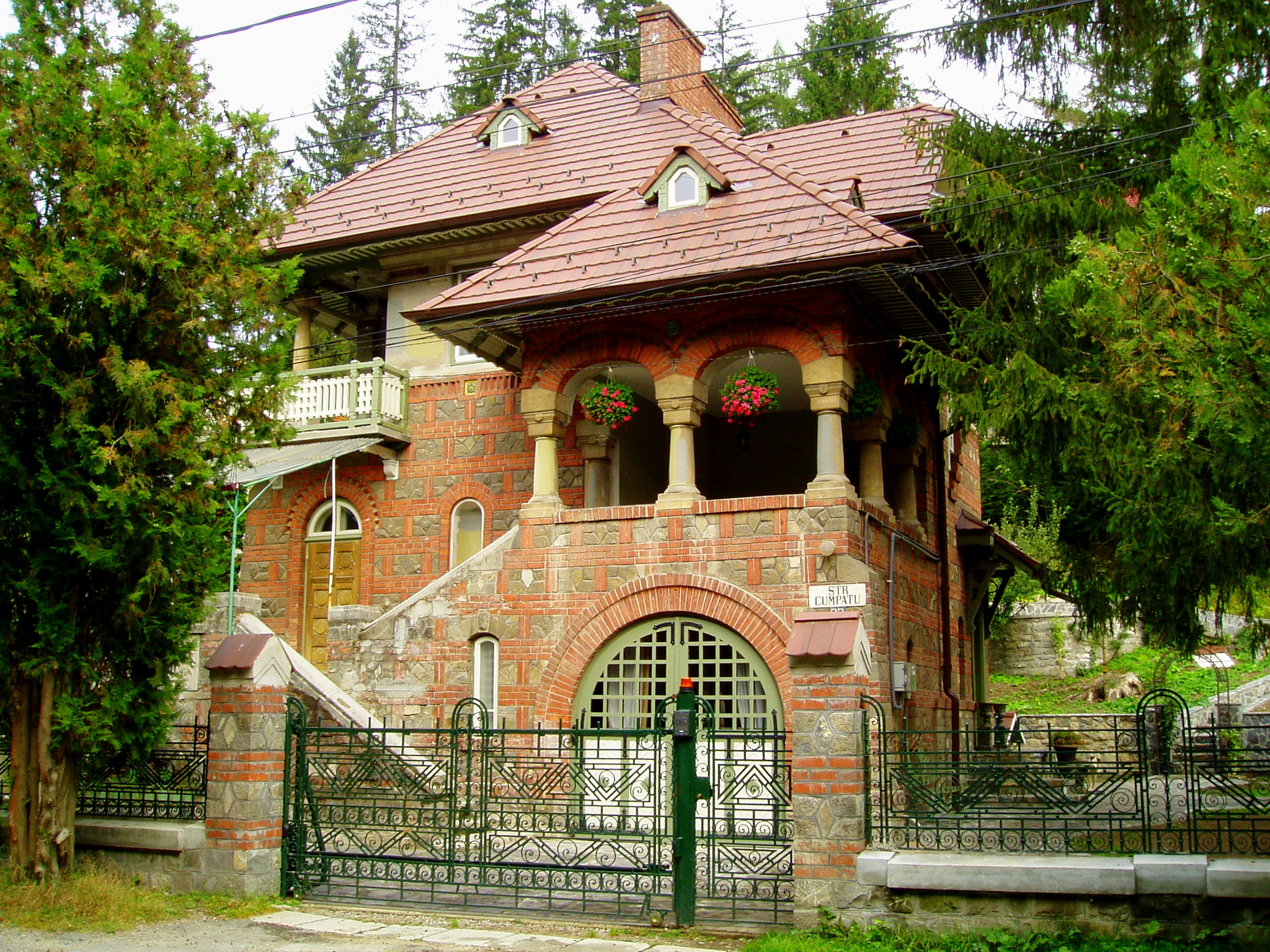 It is the Socolescu villa in Sinaia-Cumpătu, Judeţul Prahova, Romania. Built by architect Toma T. Socolescu for his wife Florica. We are the only heirs and descendants of Toma T. Socolescu (died in 1960 in Bucharest) and therefore owner of all his intellectual rights.